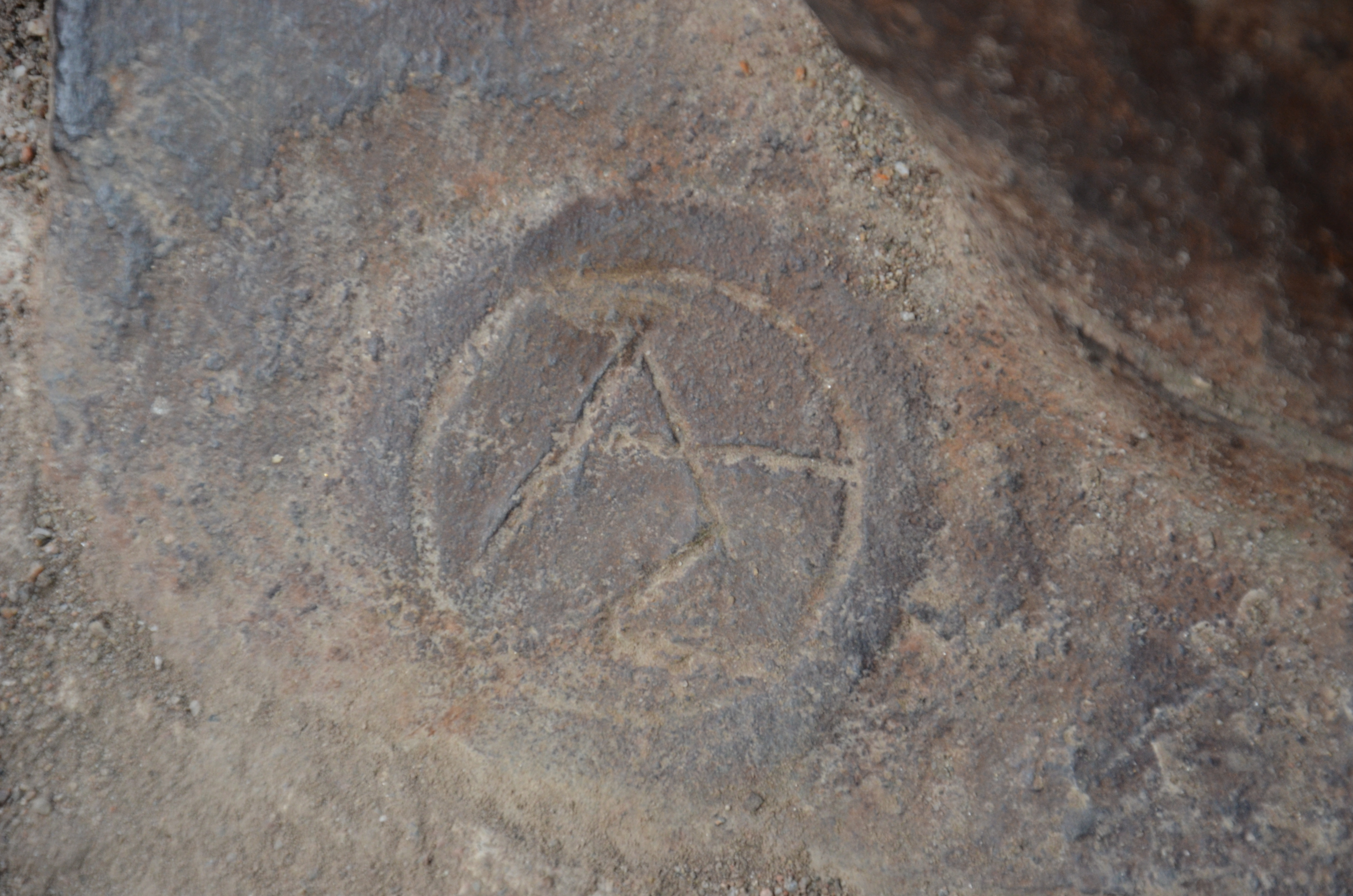 Signatur av Alllan Ebeling på Fotbollsspelaren i Eskilstuna